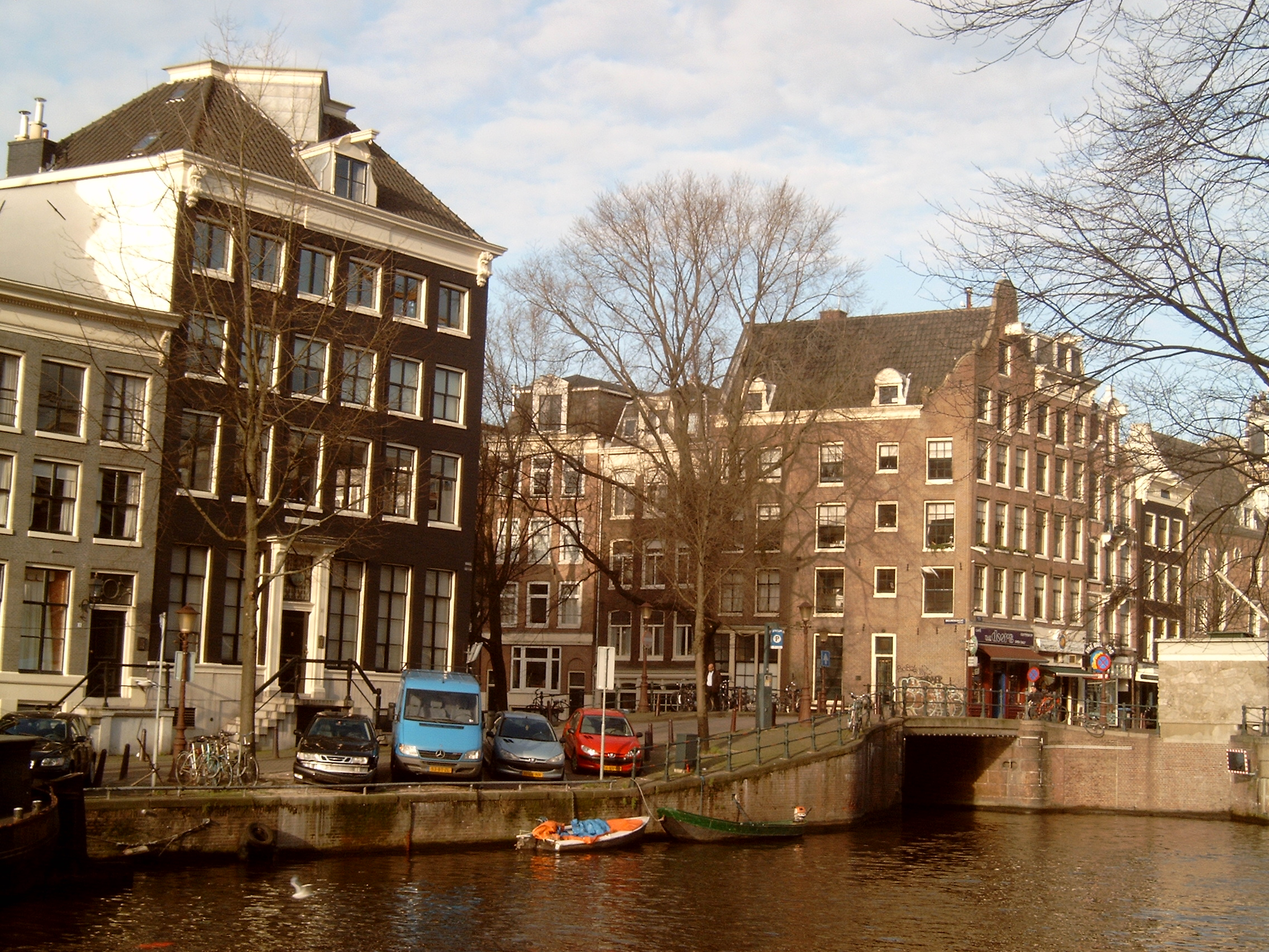 Amsterdam, small bridges across the canals